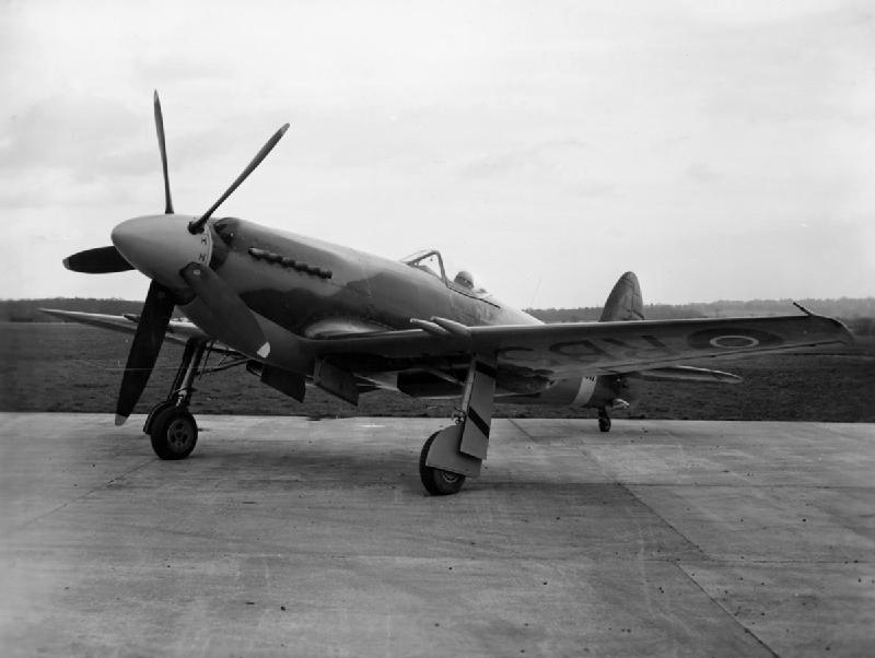 The third Royal Air Force Supermarine Spiteful FXIV (s/n RB517).